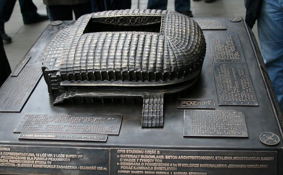 Miejski Stadium's maquette.